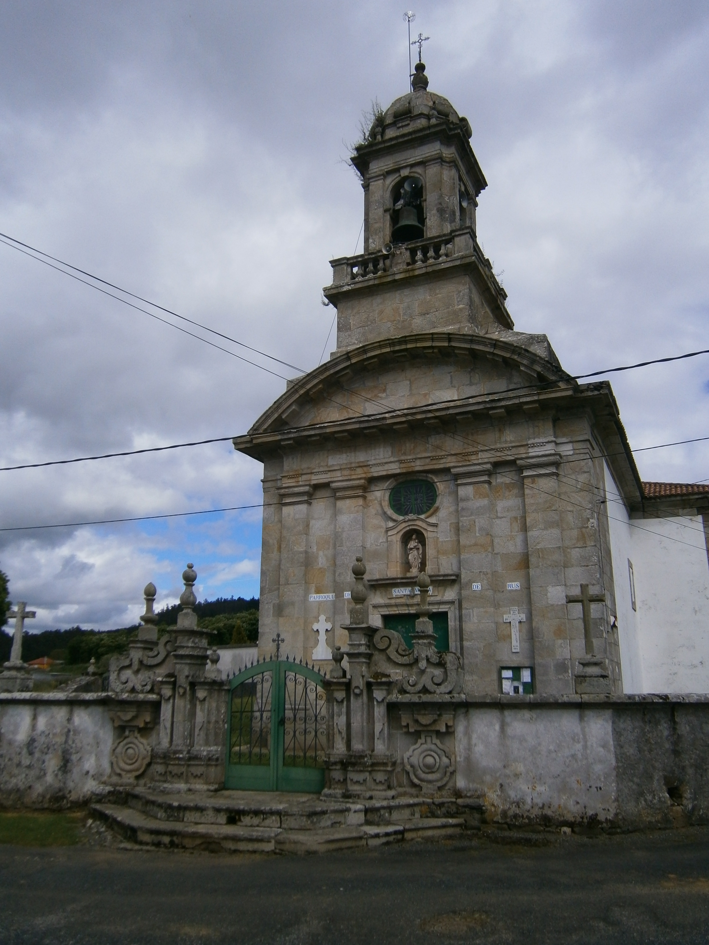 Igrexa de Santa María de Rus (Carballo)